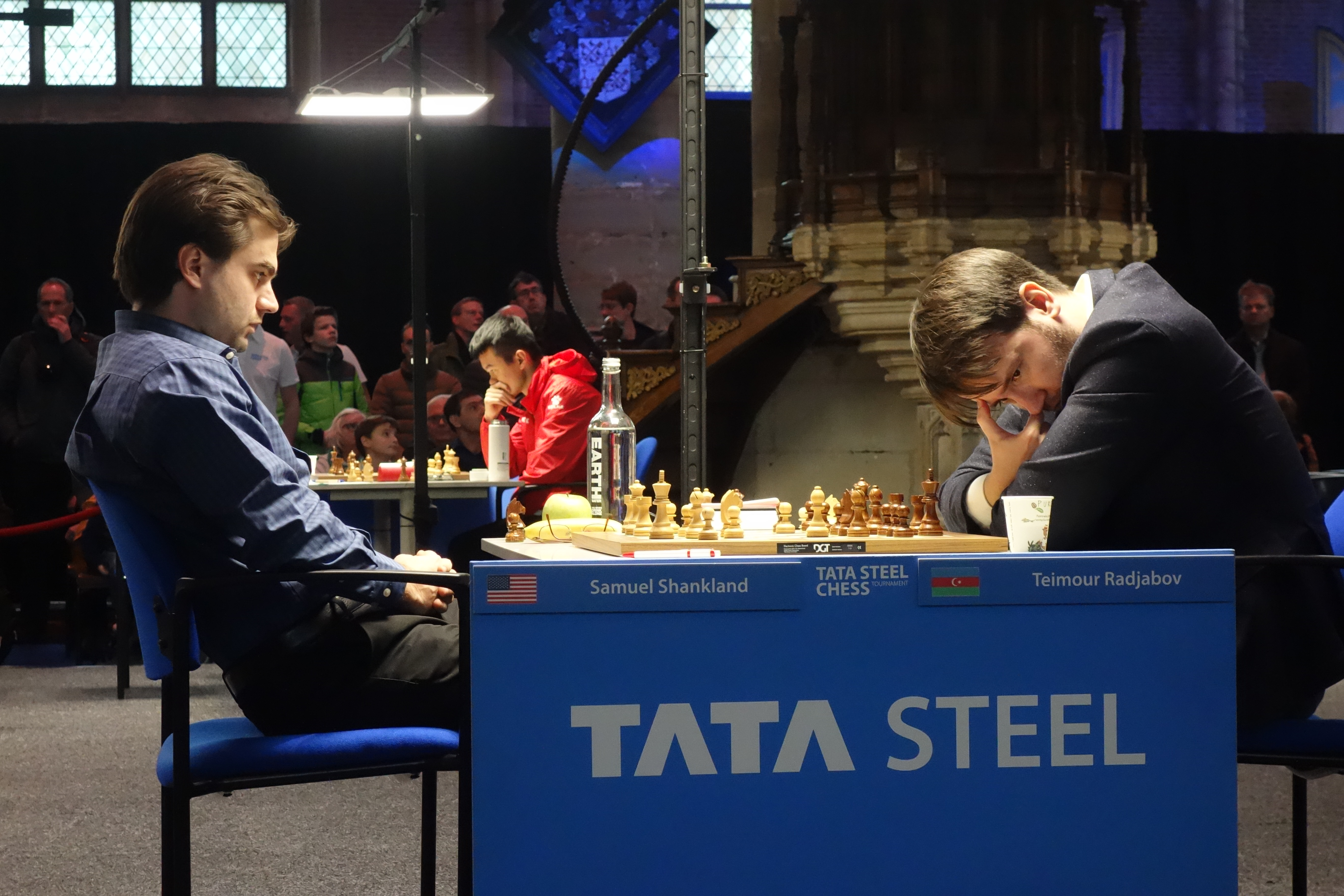 Tata Steel Chess Tournament in Leiden, the Netherlands, 23 January 2019. Samuel Shankland vs. Teimour Radjabov